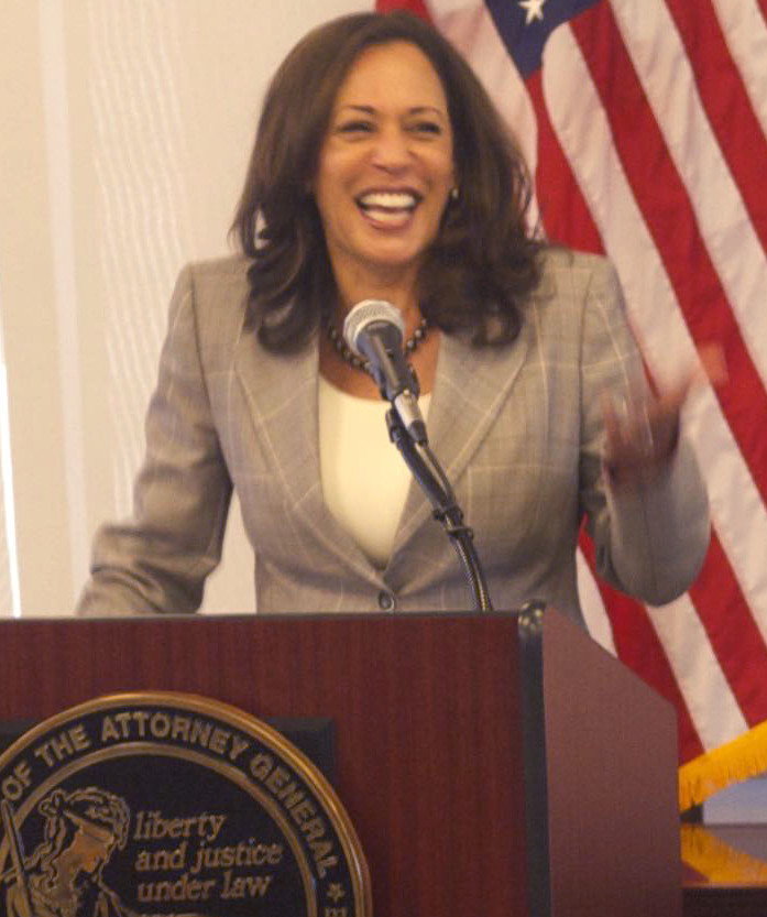 DOJ CEREMONIES 2016 Attorney General Harris presents awards to DOJ employees for their outstanding accomplishments in 2015.